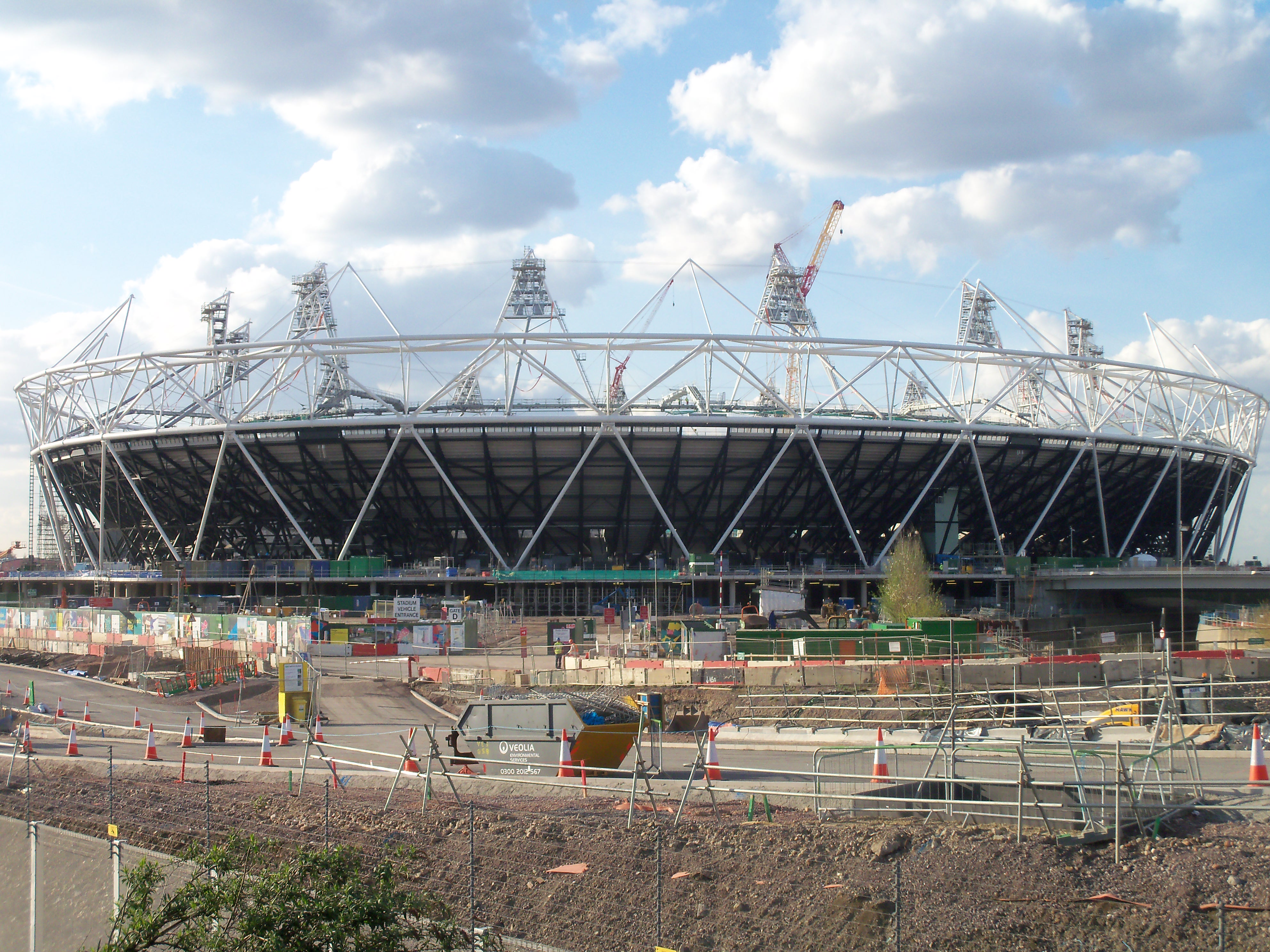 The still-under construction Olympic stadium for the 2012 Summer Games.